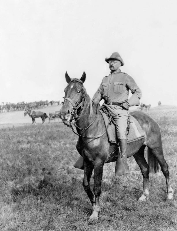 Theodore Roosevelt, the Rough Rider.